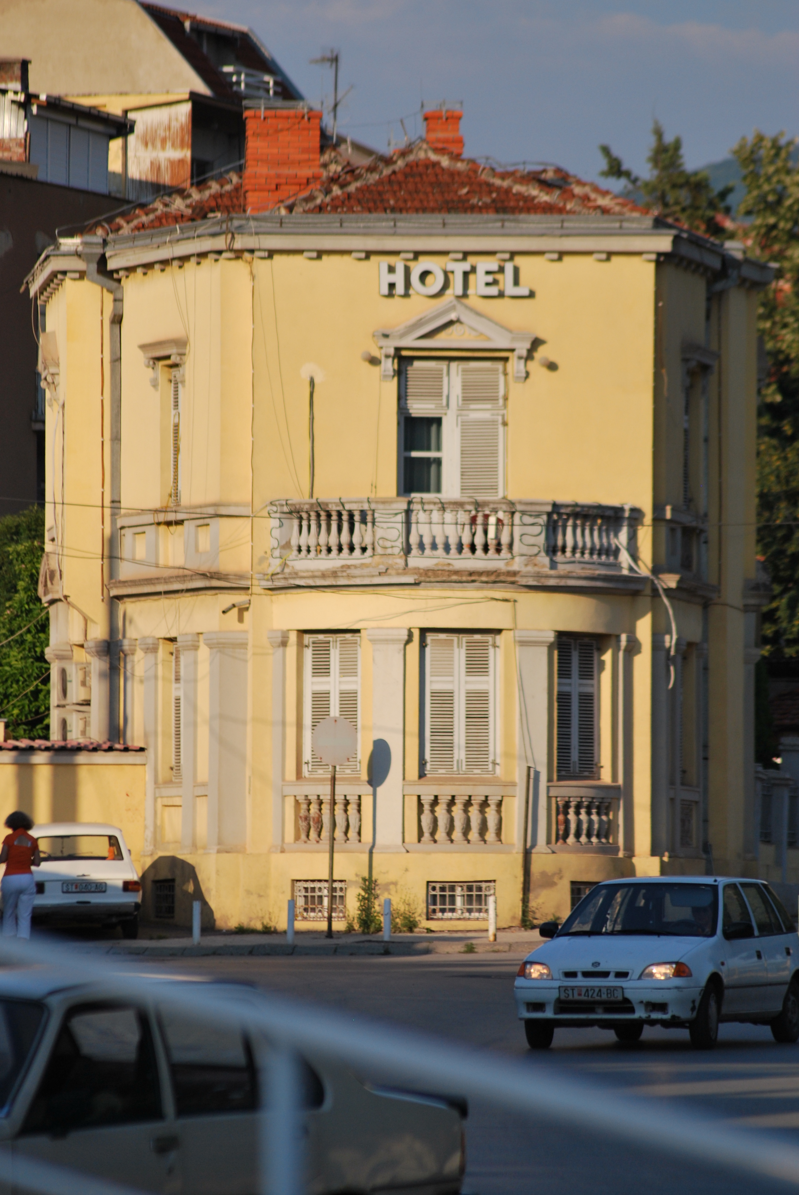 Štip, Macedonia